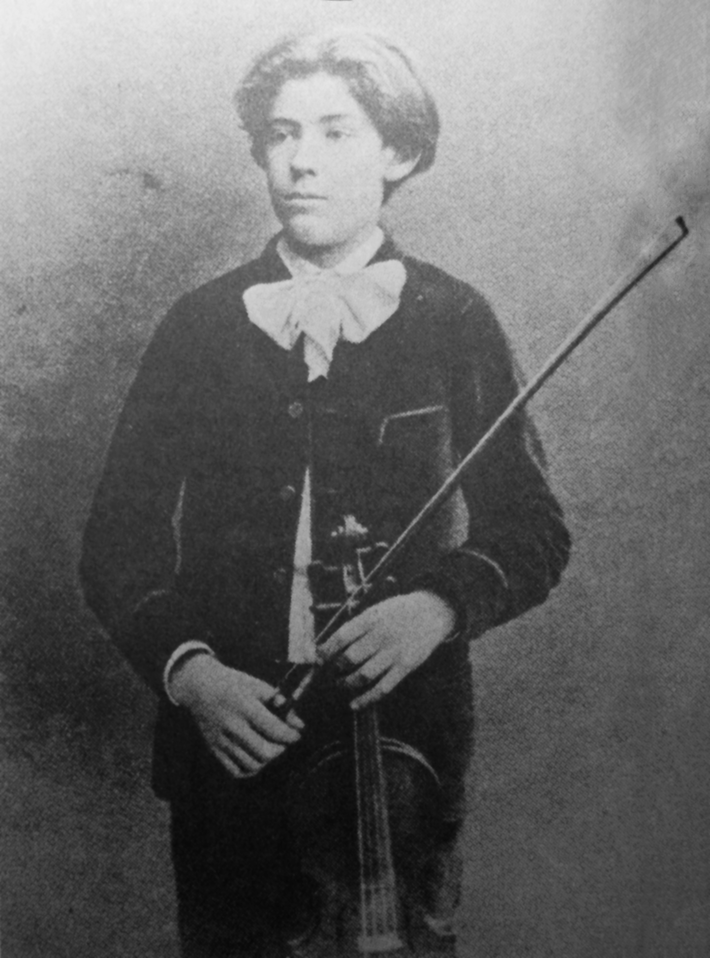 Fritz Kreisler in America concert tour at age 13